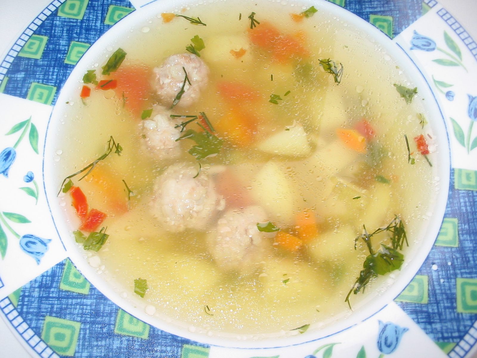 Vegetable soup with meatballs (frikadelki)